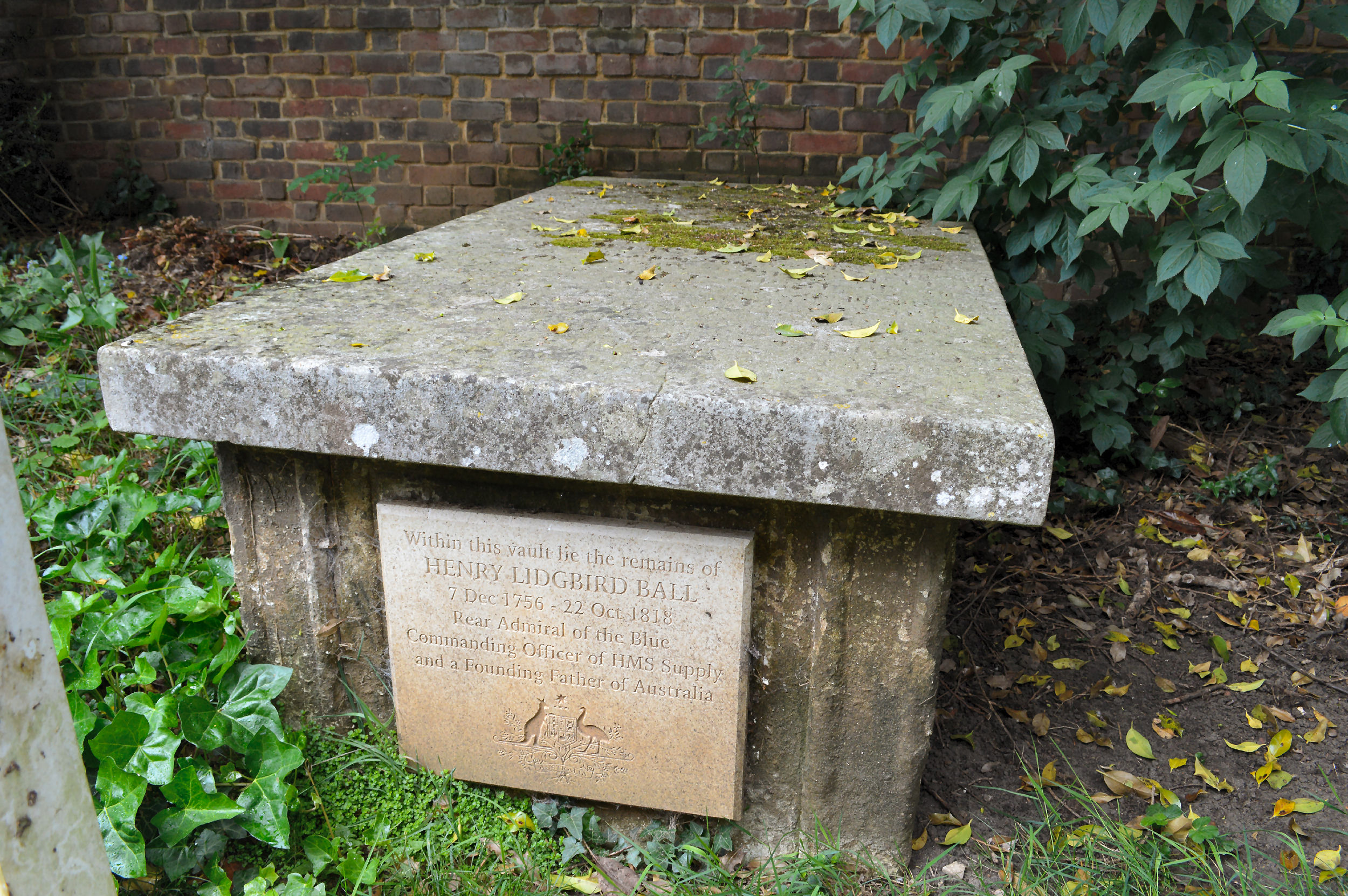 Tomb of Henry Lidgbird Ball. St Peter's Church, Petersham, Surrey